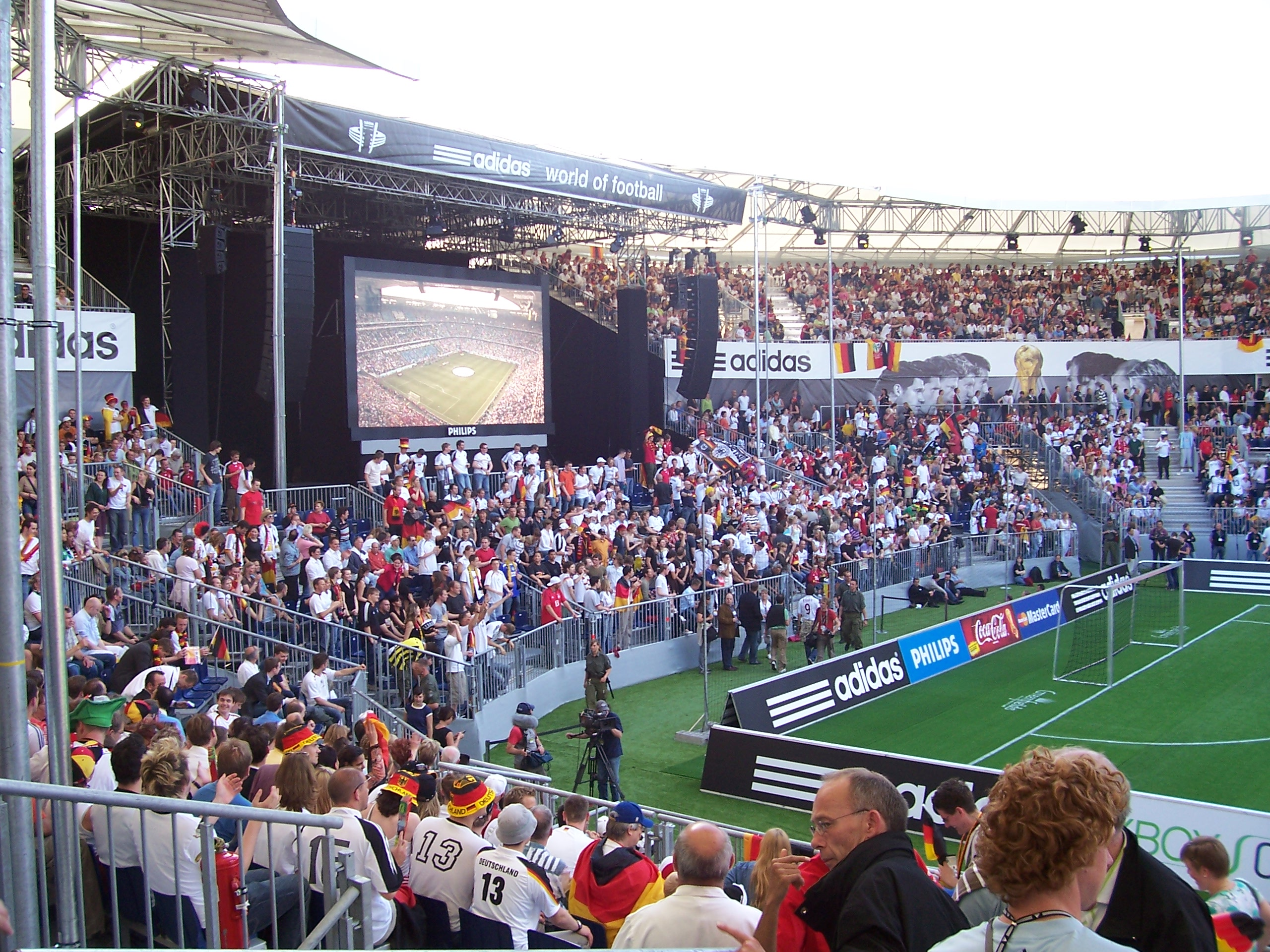 Stimmung in der Adidas World of Football